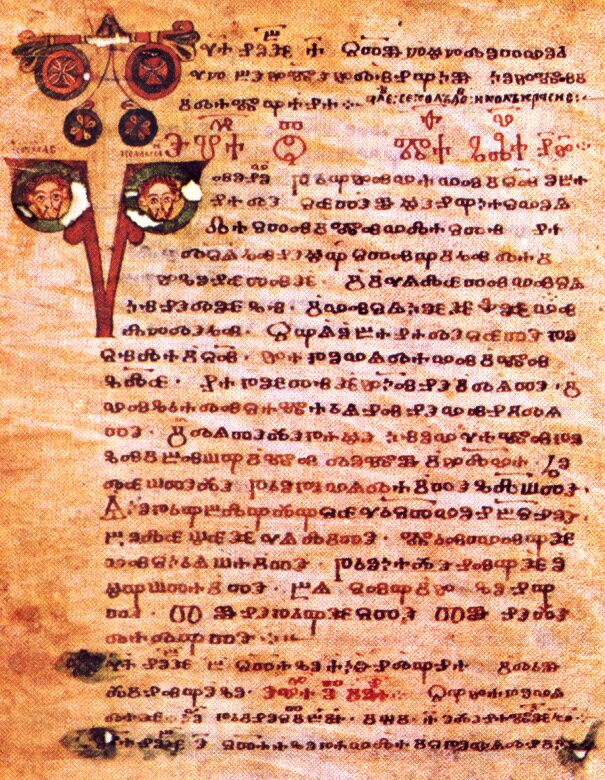 Page from "Codex Assemani"